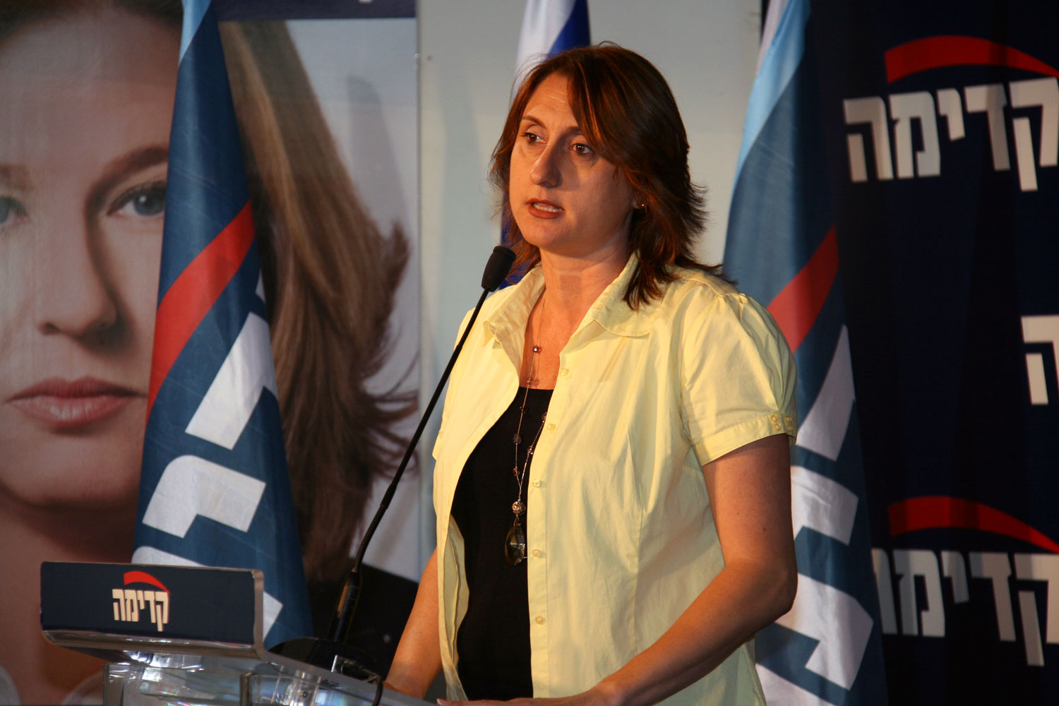 MK Orit Zuaretz, Member of Kadima Party (Israel). Photo by: Itzik Edri, Kadima Party PR Team